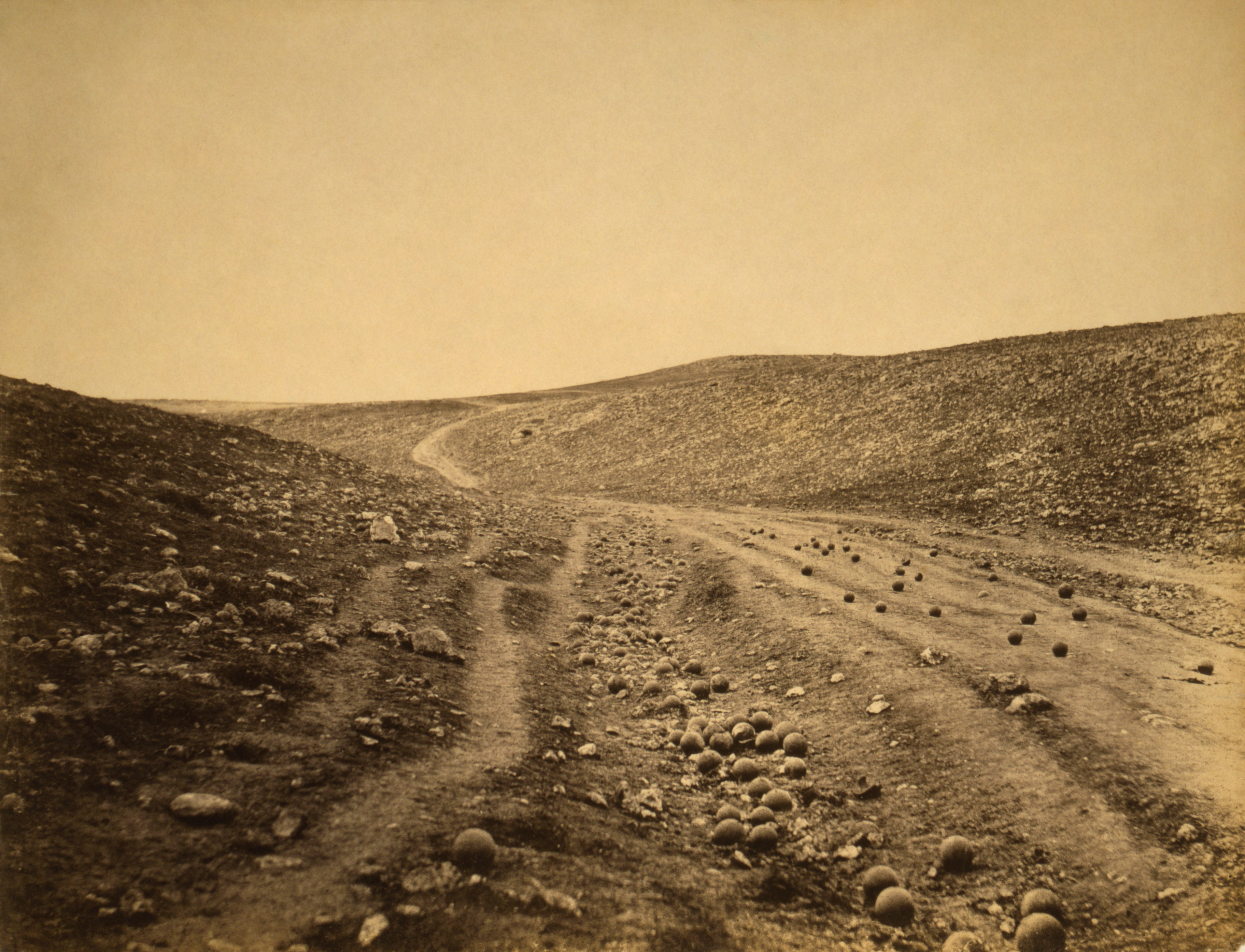 "The valley of the shadow of death" Crimean War photograph. Dirt road in ravine scattered with cannonballs.